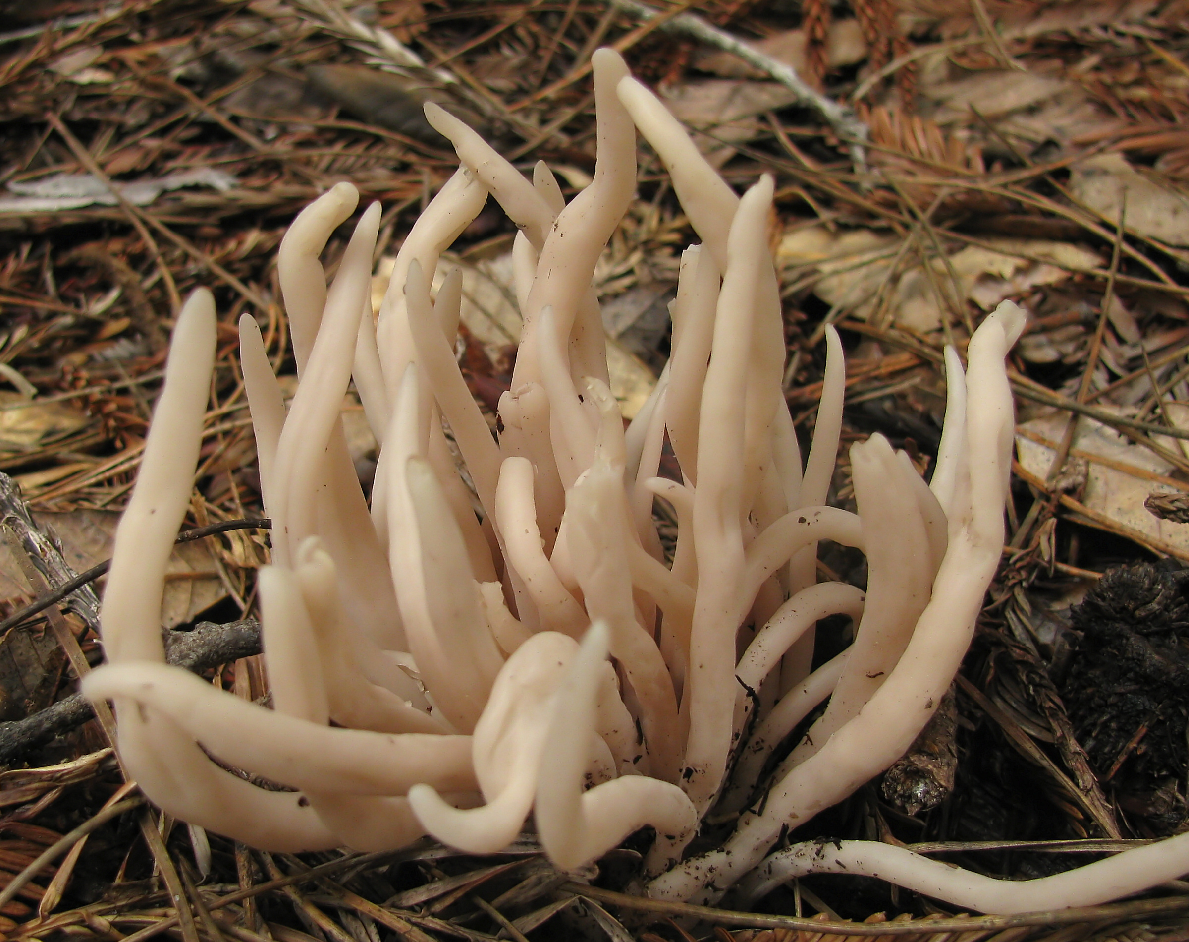 Clavaria fumosa Pers. Location: Gualala, California, USA For more information about this, see the observation page at Mushroom Observer.